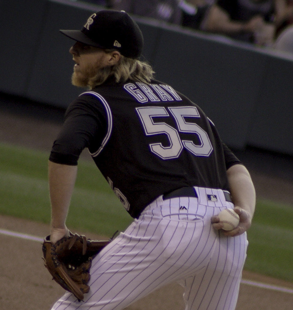 Jon Gray prepares to deliver a pitch for the Colorado Rockies in August 2018